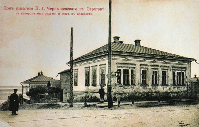 Chernyshevsky's house in Saratov